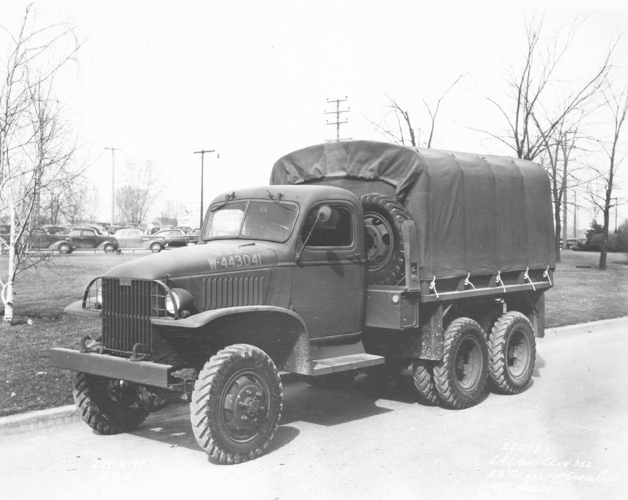 Truck, GMC Short Wheelbase Cargo w/o Winch, 2 1/2 Ton, 6x6.